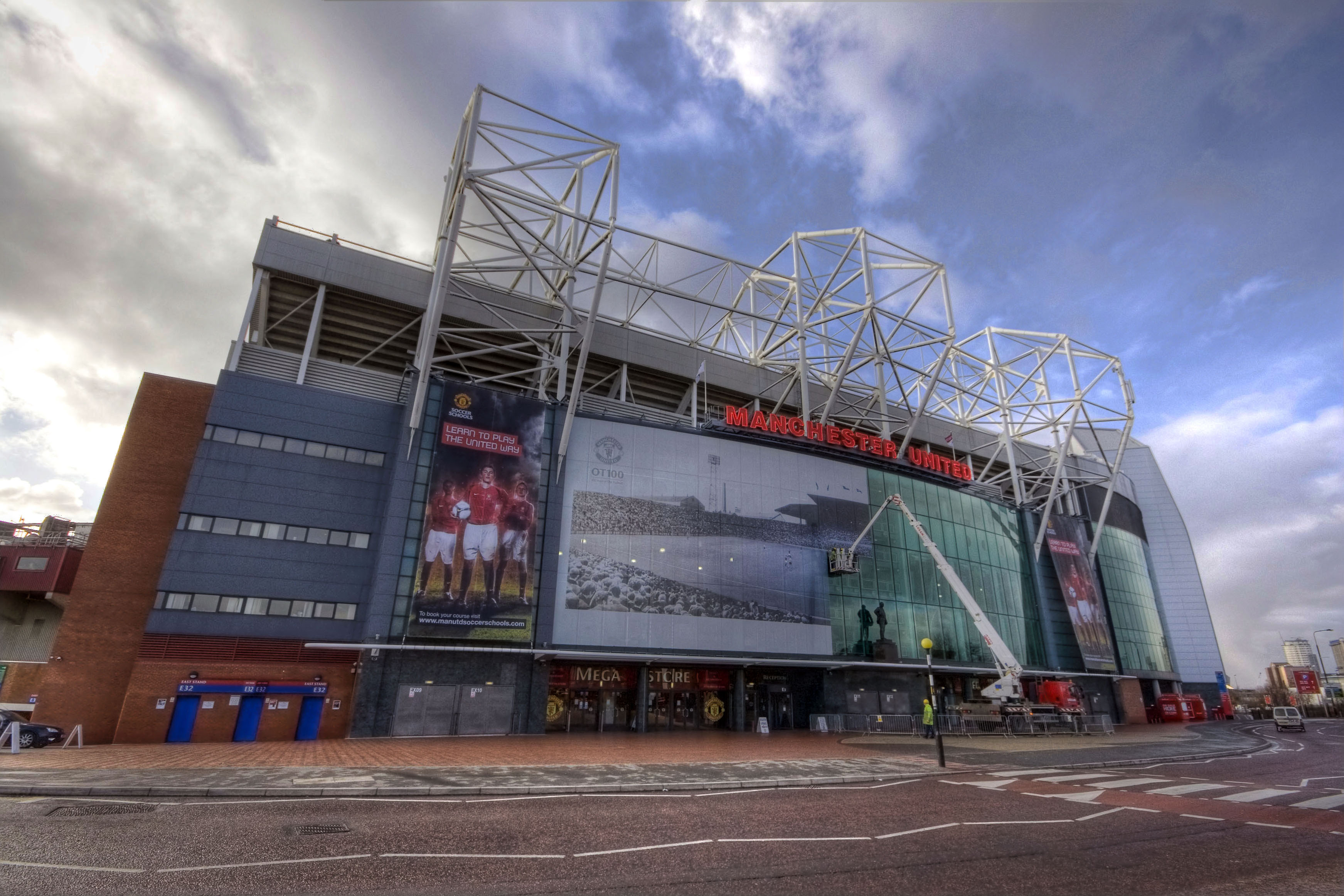 Exterior facade, just as the workmen were installing the 100th anniversary poster.